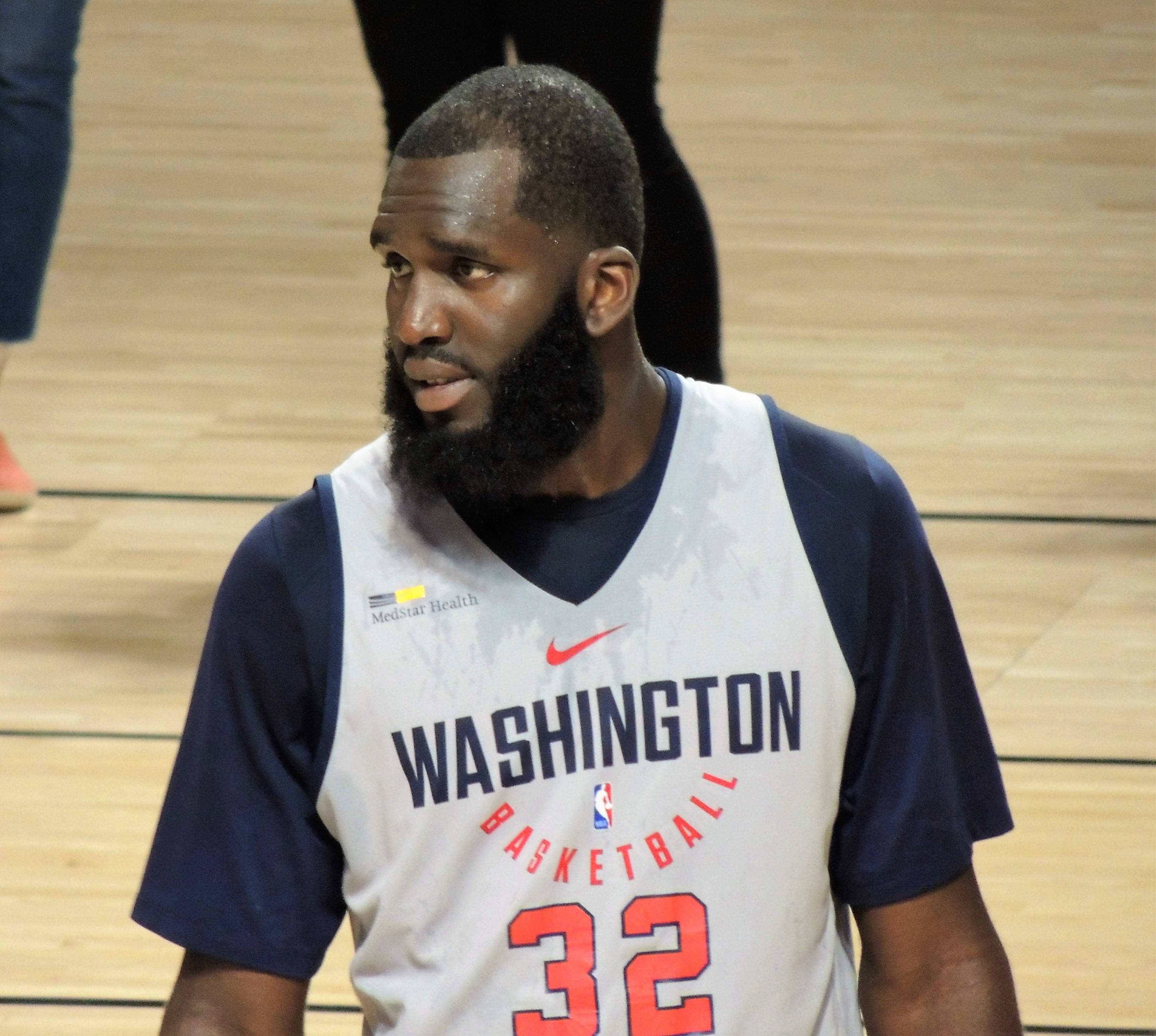 Daniel Ochefu scrimmaging at the Washington Wizards 2017 training camp